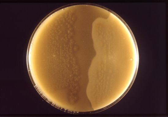 These Clostridium perfringens colonies were cultured on a half-antitoxin plate. This anaerobic bacterium can exist as a vegetative cell, or in its dormant spore form. The spores persist in the environment often contaminating raw food materials. These bacteria are found in mammalian feces, and the soil.